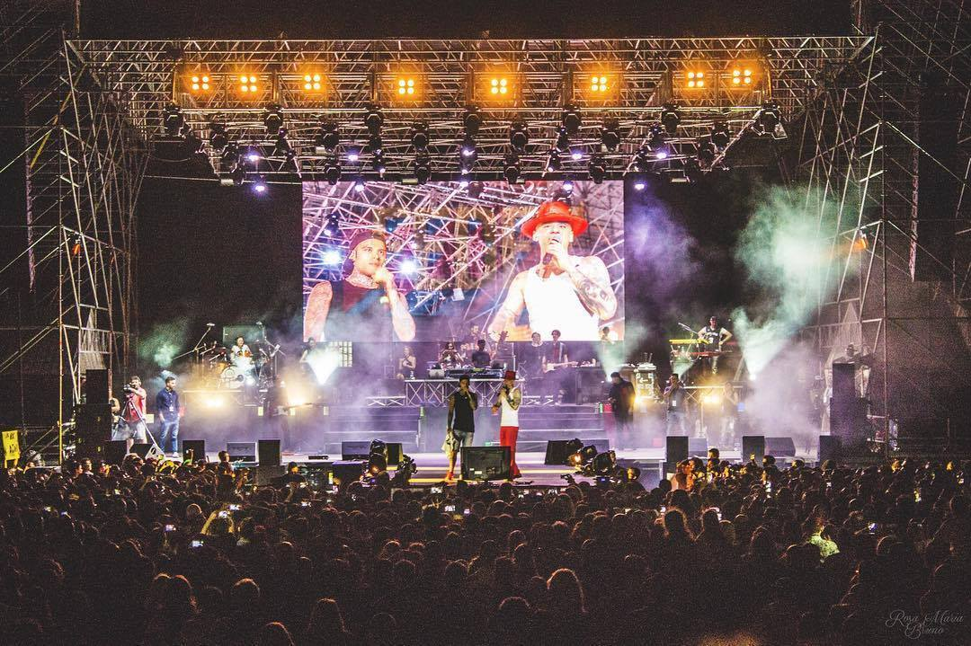 Fabio Vitiello on drums with J-ax and Fedez